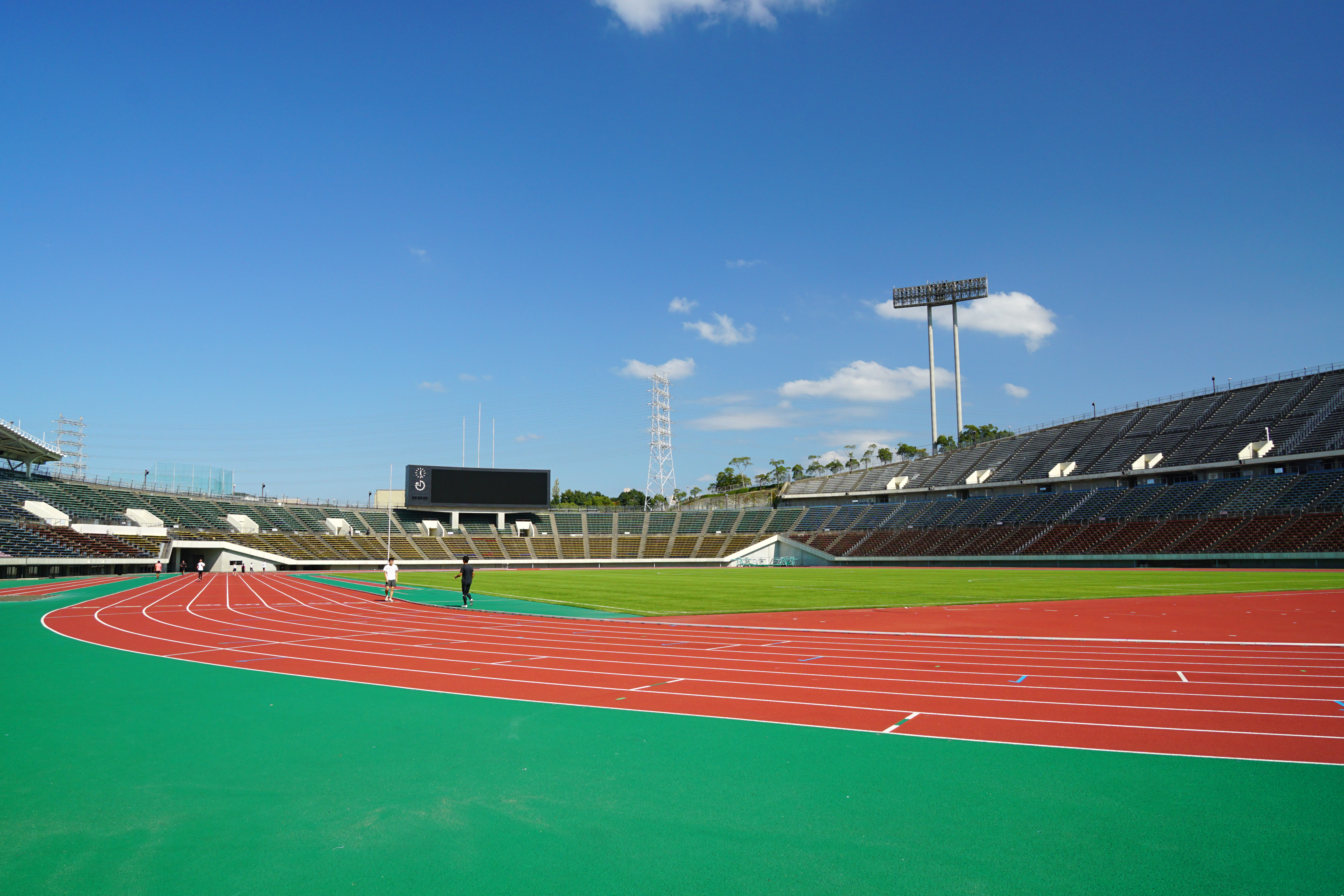 Kobe Universiade Memorial Stadium in Kobe, Hyogo prefecture, Japan